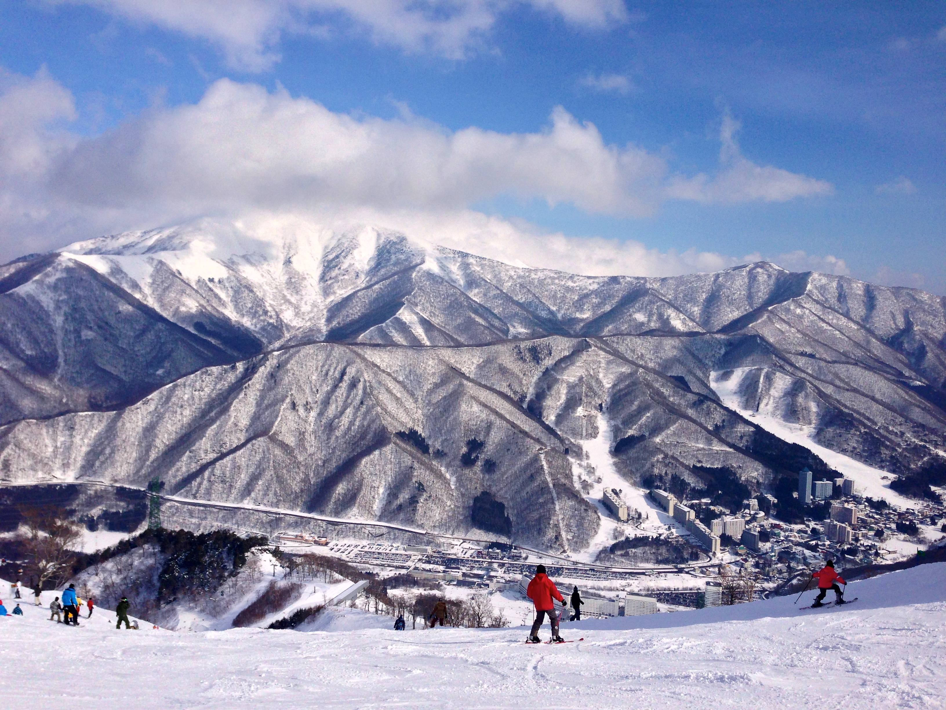 Naeba Ski Resort in Yuzawa, Niigata Prefecture, Japan.